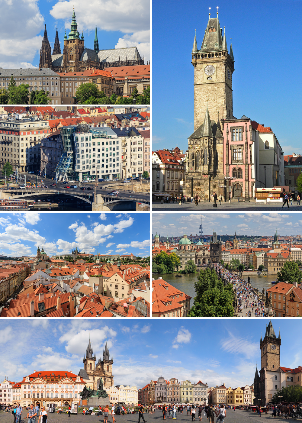 Collage for an article about Prague